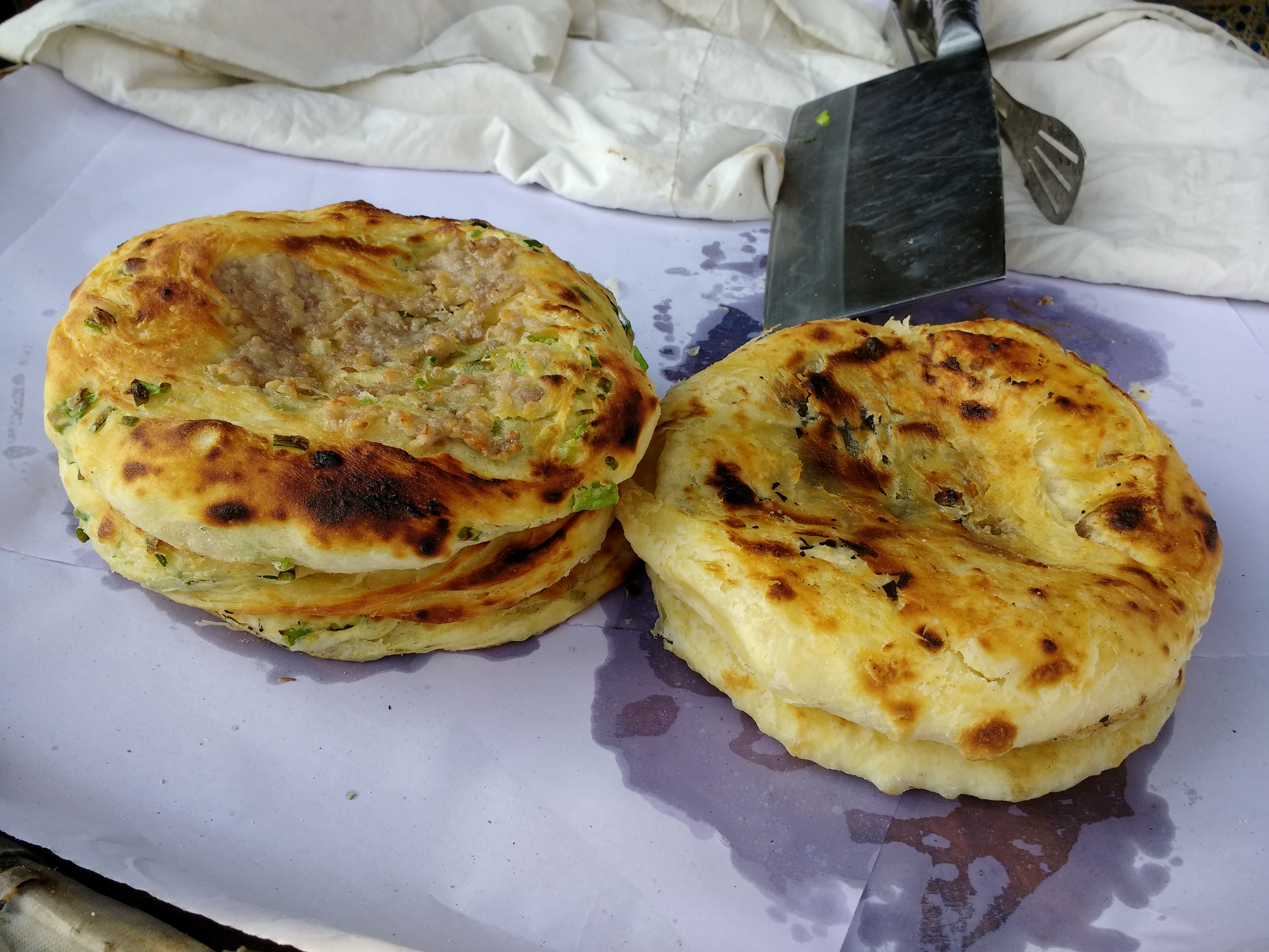 Baba (粑粑), a kind of bread, with meat in Xizhou (喜洲), Dali, China